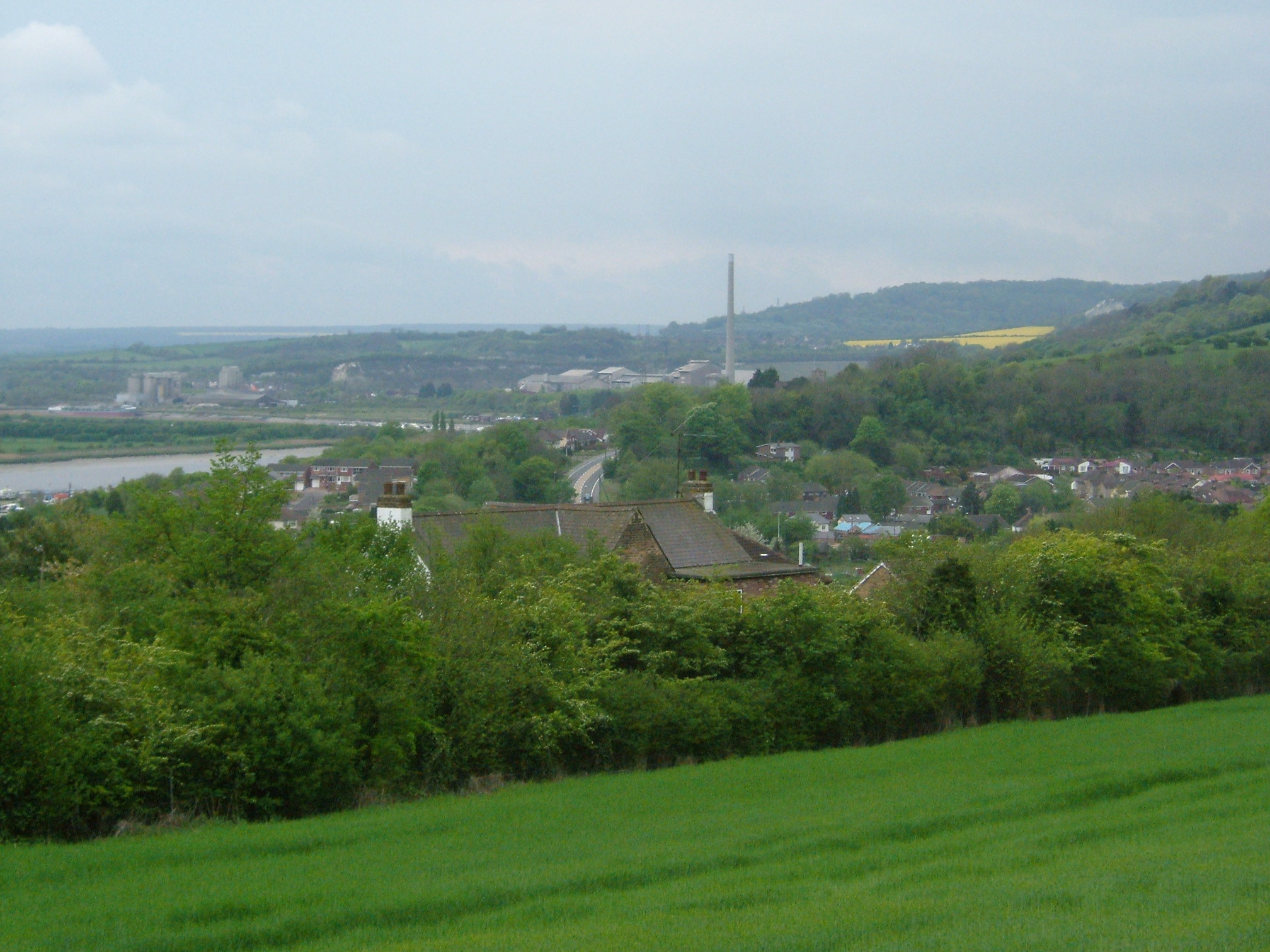 A view of Cuxton, Kent from Ranscombe Farm. The village is sited in a valley in the North Downs leading to the River Medway. In the background is a chimney of the Cement Works at Halling. It is April and the fields are planted with Oil Seed rape giving it the distinctive yellow colour